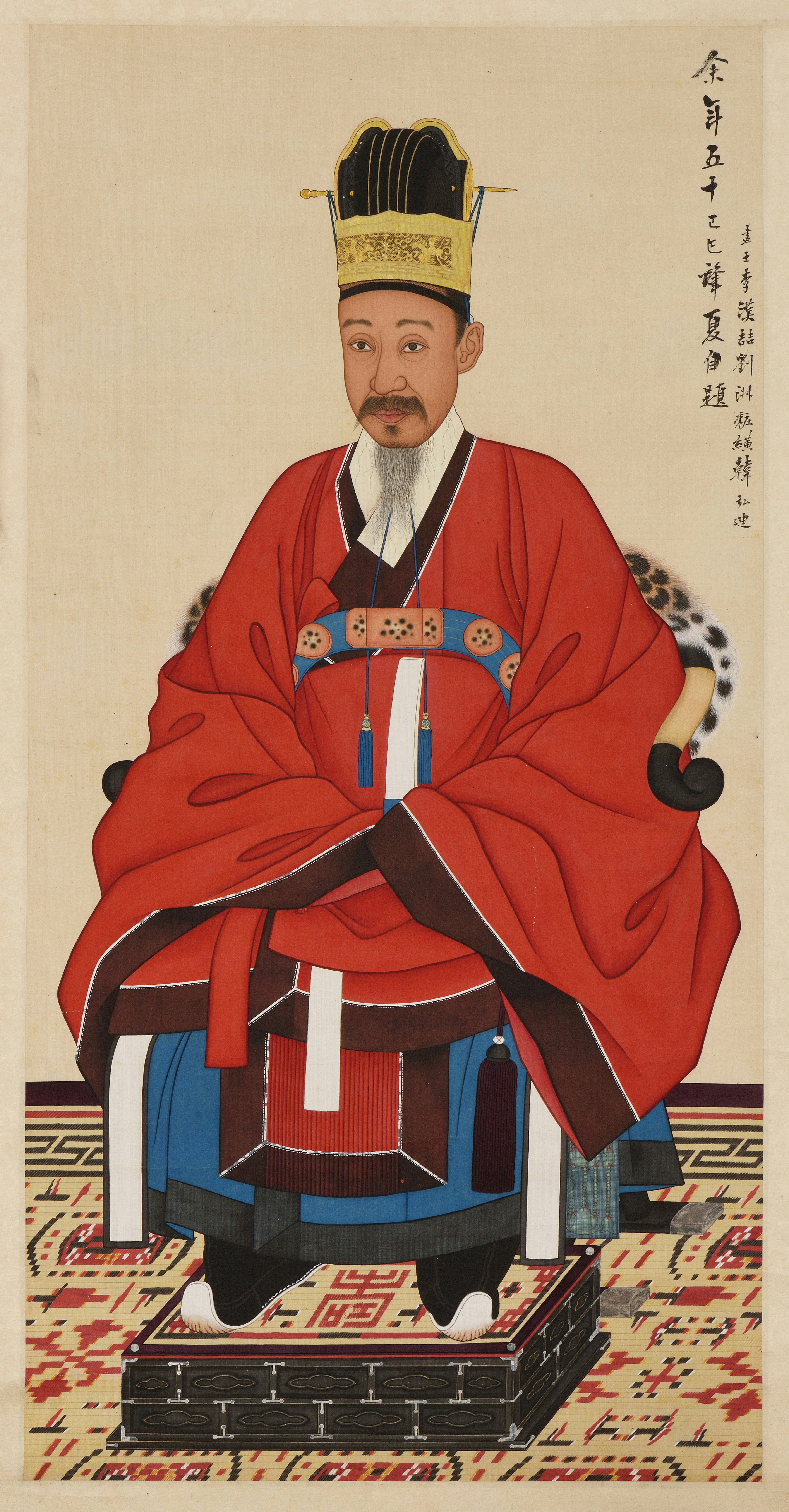 Portrait of Heungseon Daewongun, Yi Haeung wearing Geumgwan and Jobok